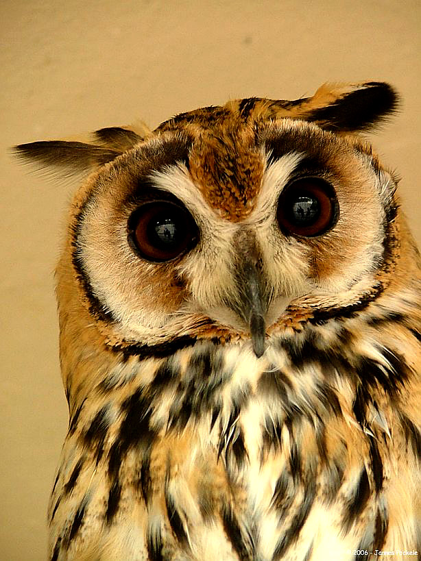 There is a larger view .. For six word story .